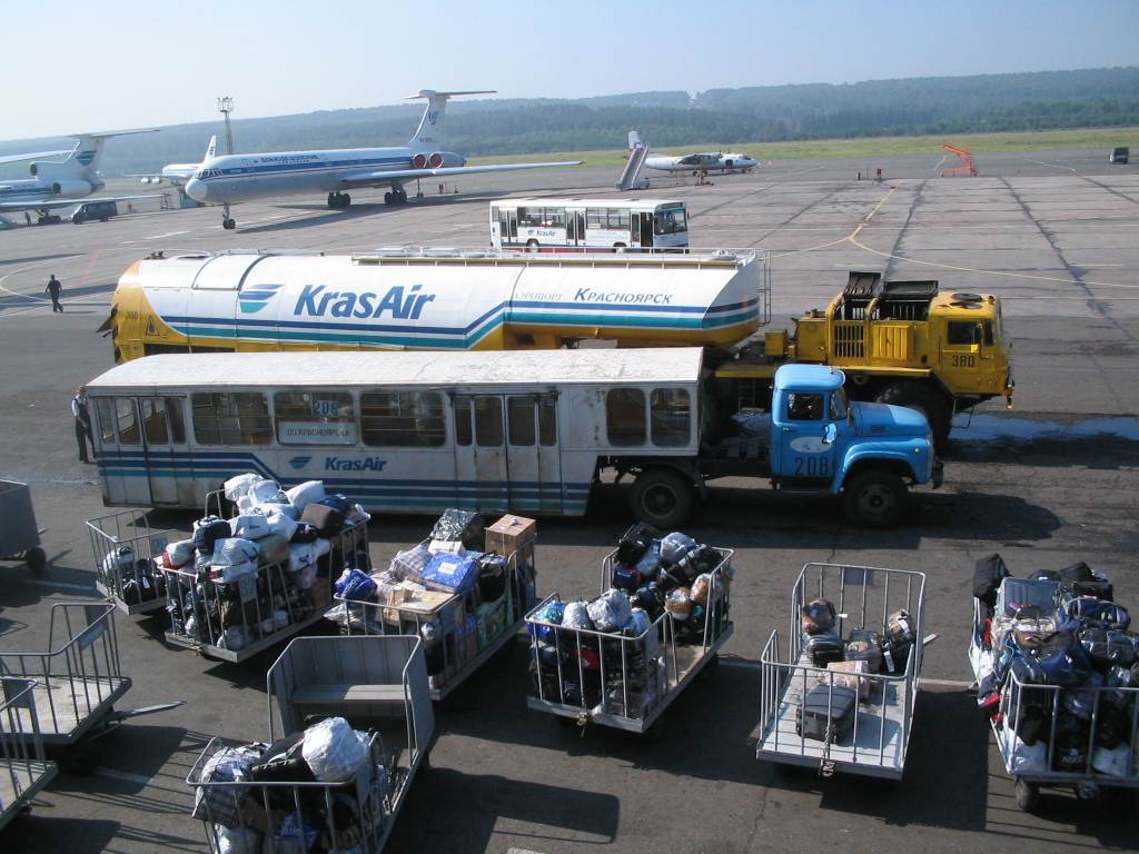 KrasAir fuel truck and bus in Yemelyanovo Intl